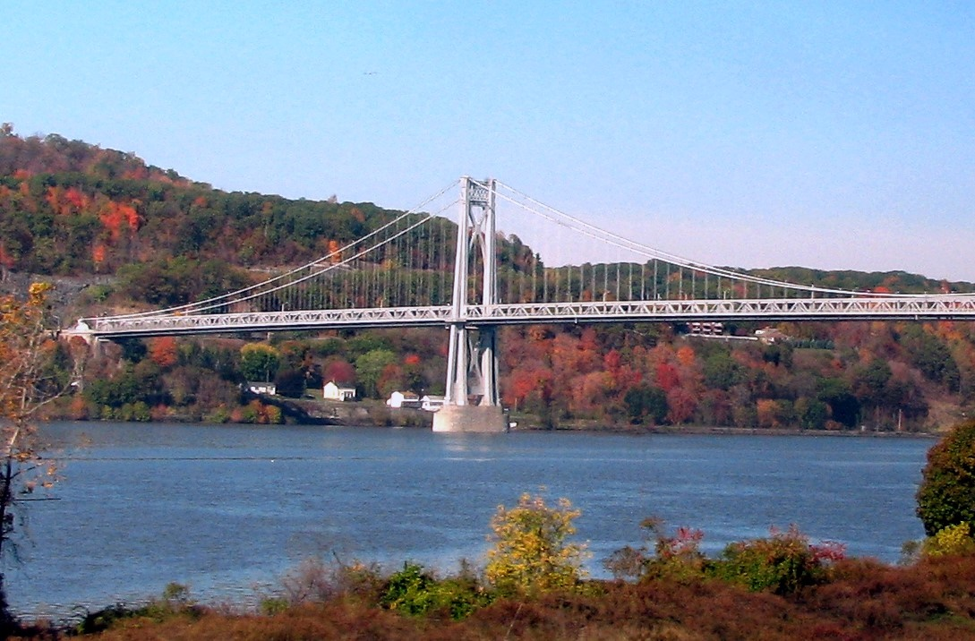 The Mid-Hudson Bridge taken from a train on the eastern shore of the Hudson River. The photo was modified from the original. The exposure, contrast and color balance were adjusted. The picture was cropped and a badly placed telephone pole and cable were digitally removed from the foreground.